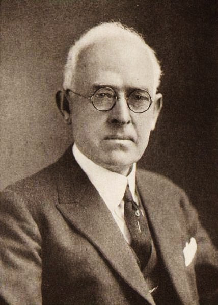 William A. Spinks at around age 56.